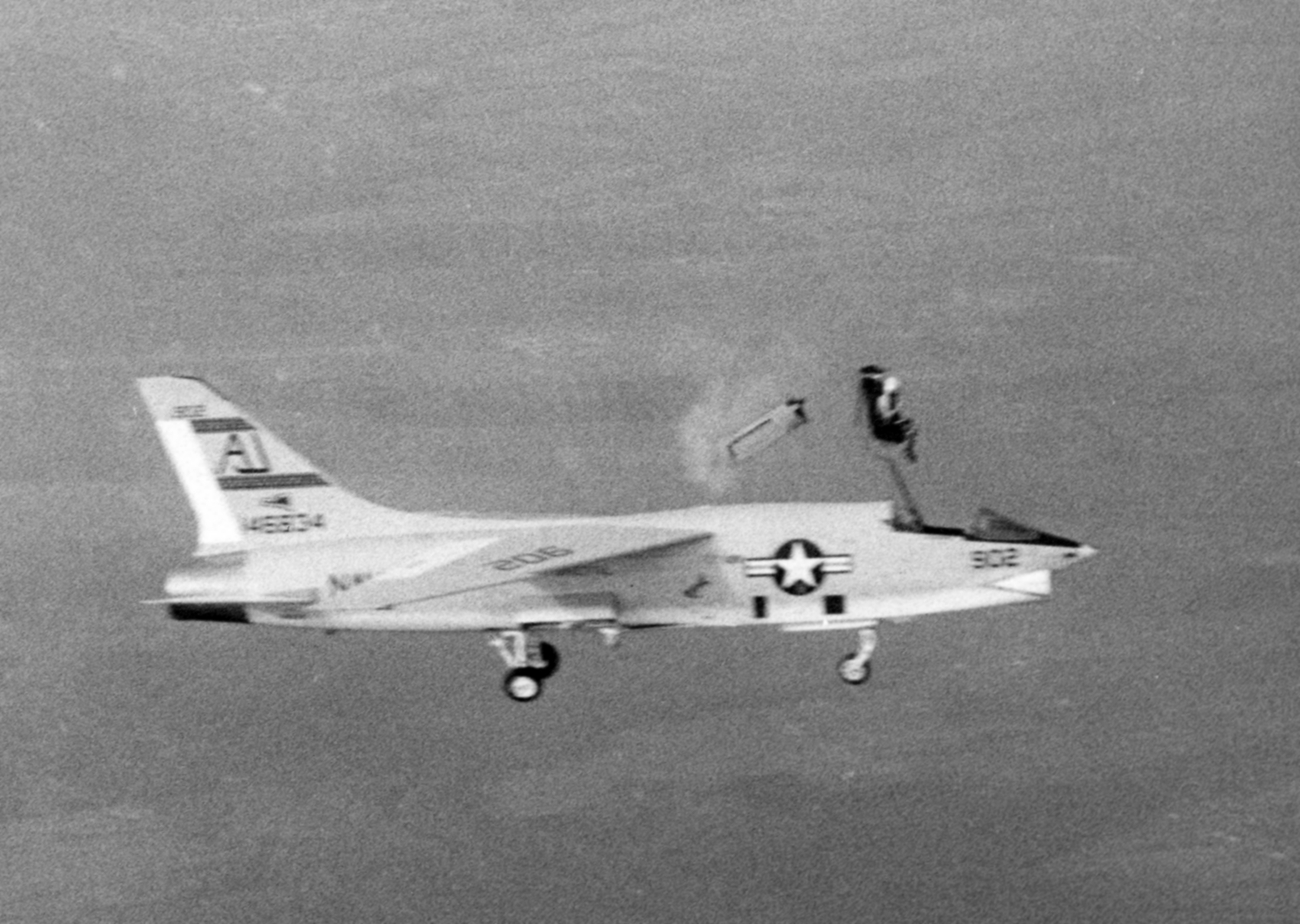 U.S. Navy Lieutenant (junior grade) J.M. Baucom ejects from the cockpit of an Vought RF-8A Crusader (BuNo 145634) of Photographic Reconnaissance Squadron VFP-62 on 13 November 1963. He ejected safely and was picked up by rescue helicopter. The helicopter, however, crashed 5 km from Naval Air Station Oceana, Virginia (USA), due to engine problems, but both the helicopter crew and the rescued pilot were uninjured.